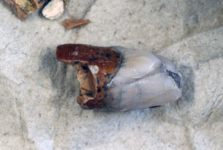 Tooth from Homo Erectus found at The museum of Evolution, Uppsala University, Sweden.